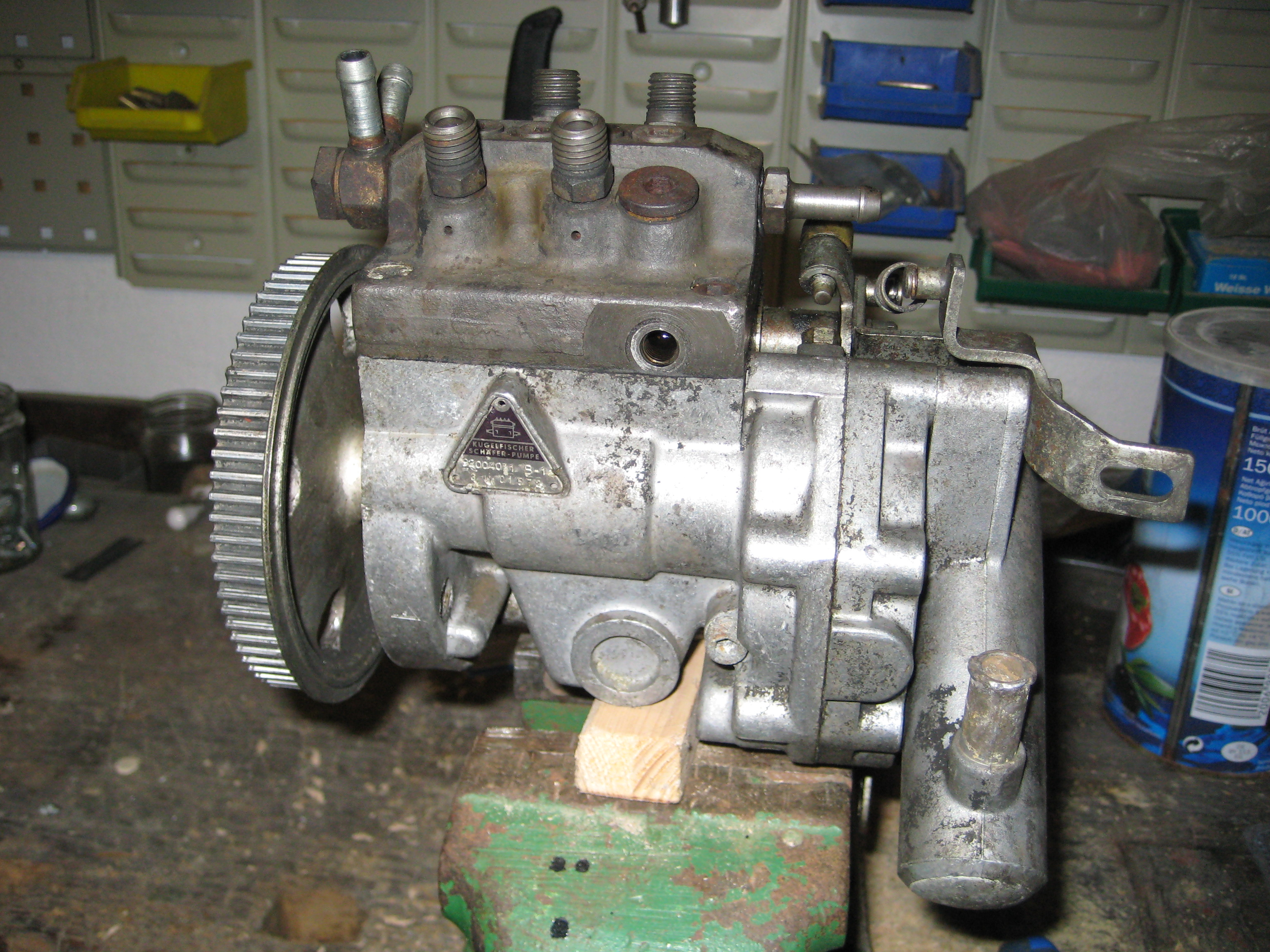 mechanic Kugelfischer Gasoline Fuel Injection Pump Typ PL 04